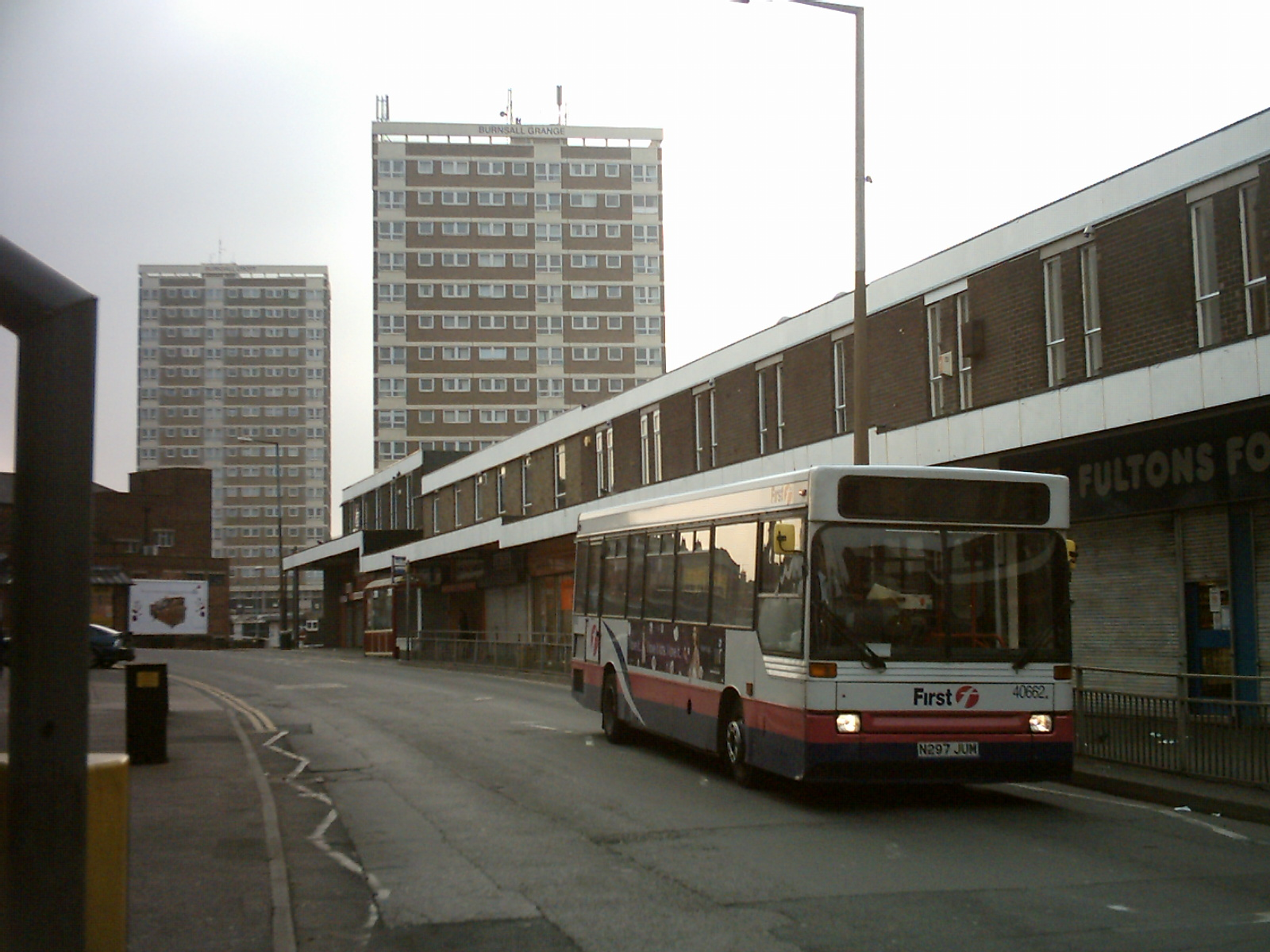 Town Street looking West in Armley, Leeds, West Yorkshire, UK. (19th April 2009). First Leeds 40662 (N297 JUM), a Dennis Dart/Plaxton Pointer, can be seen.